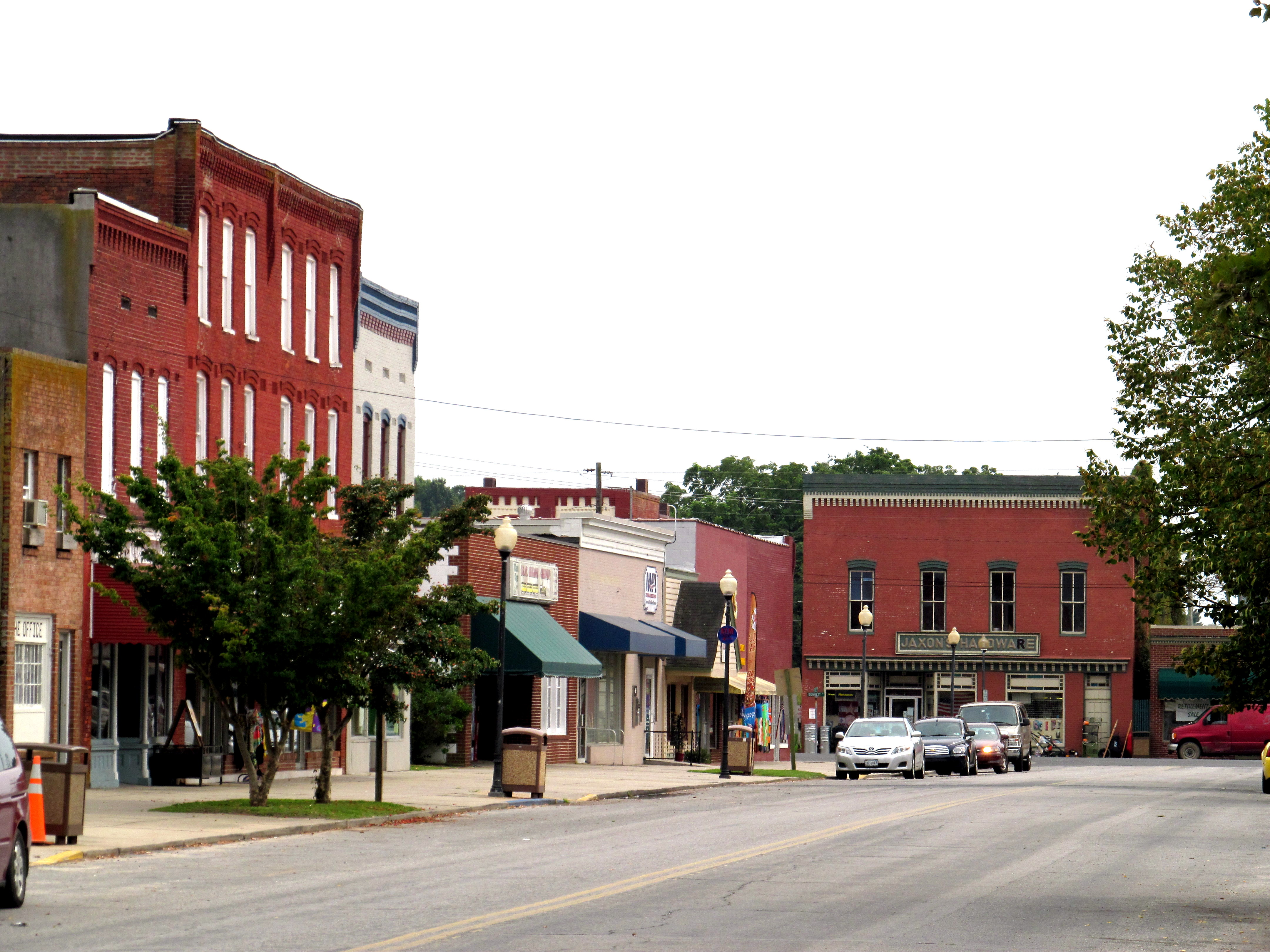 Dunne Avenue running towards Bennett Street (VA 176) is the main commercial district of Parksley, Virginia